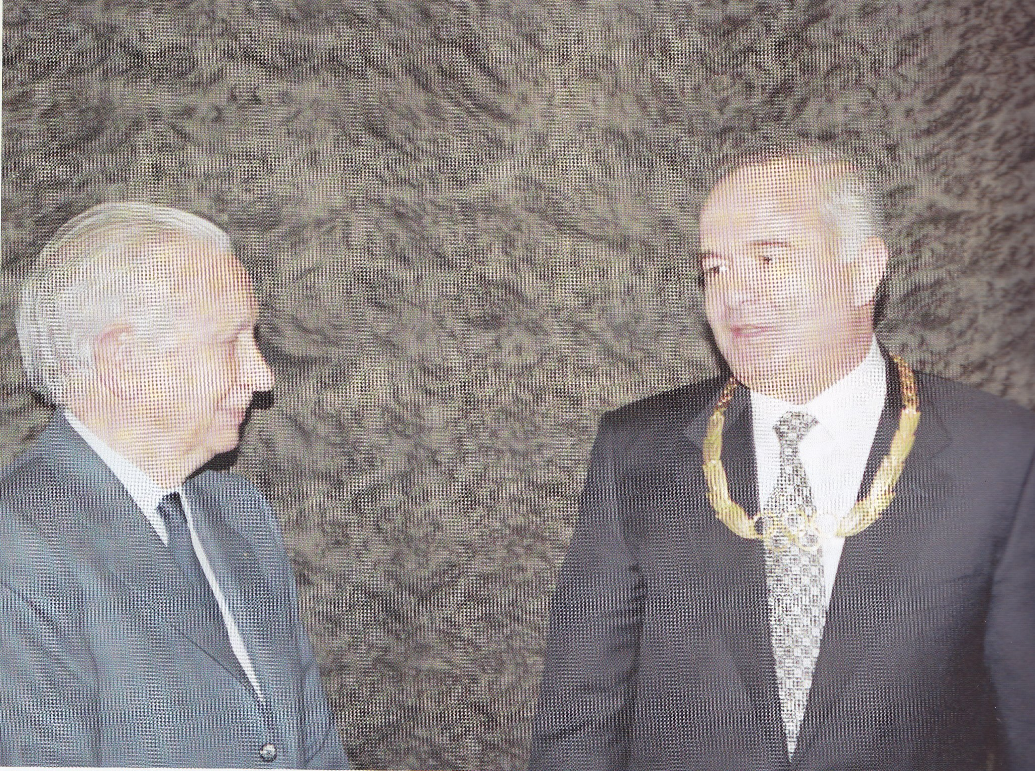 Samaranch and Karimov